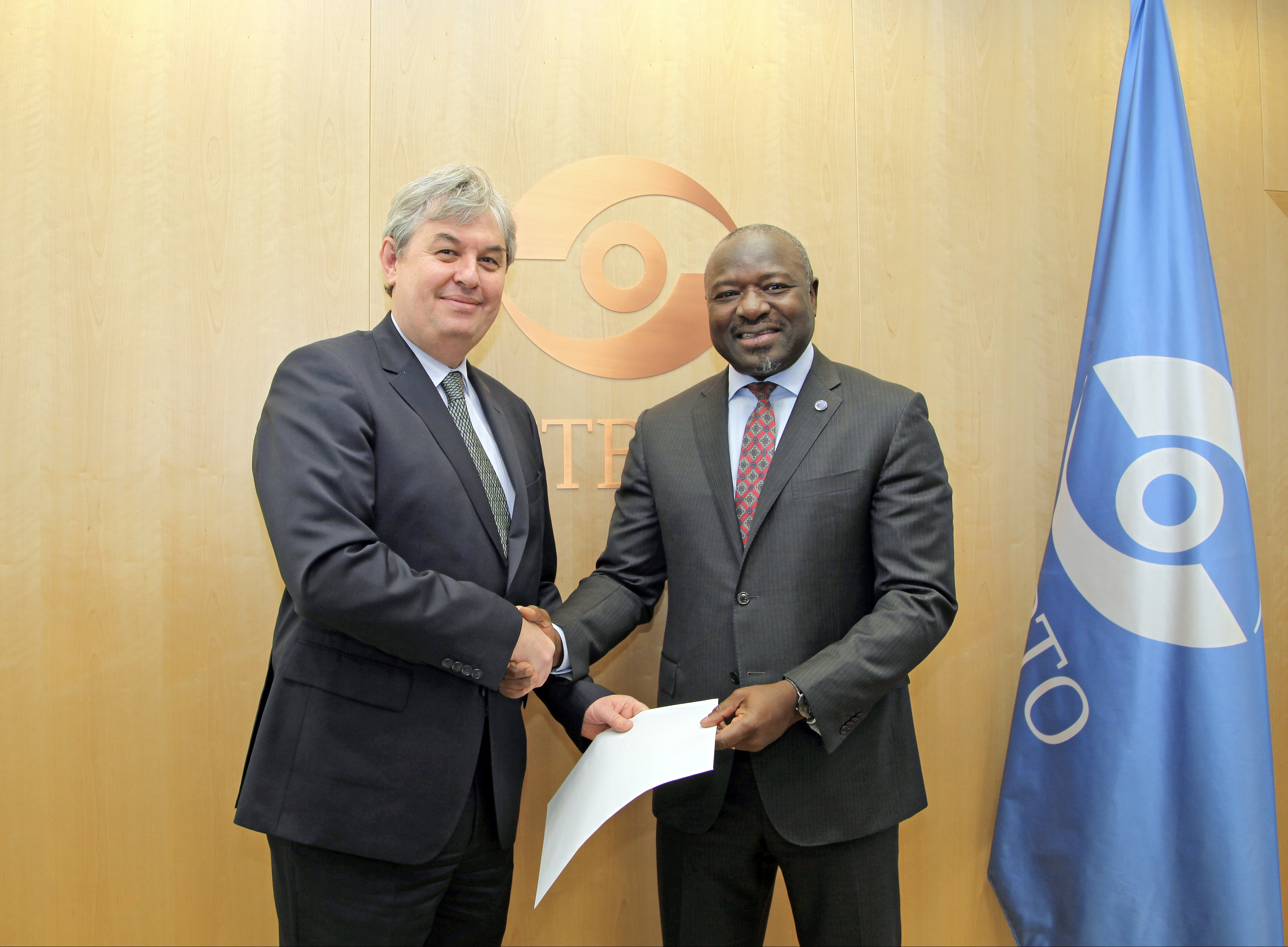 H.E. Mr Igor Djundev, Permanent Representative of the Republic of North Macedonia, presents his credentials to Dr Lassina Zerbo, Executive Secretary of CTBTO on 13 March 2019